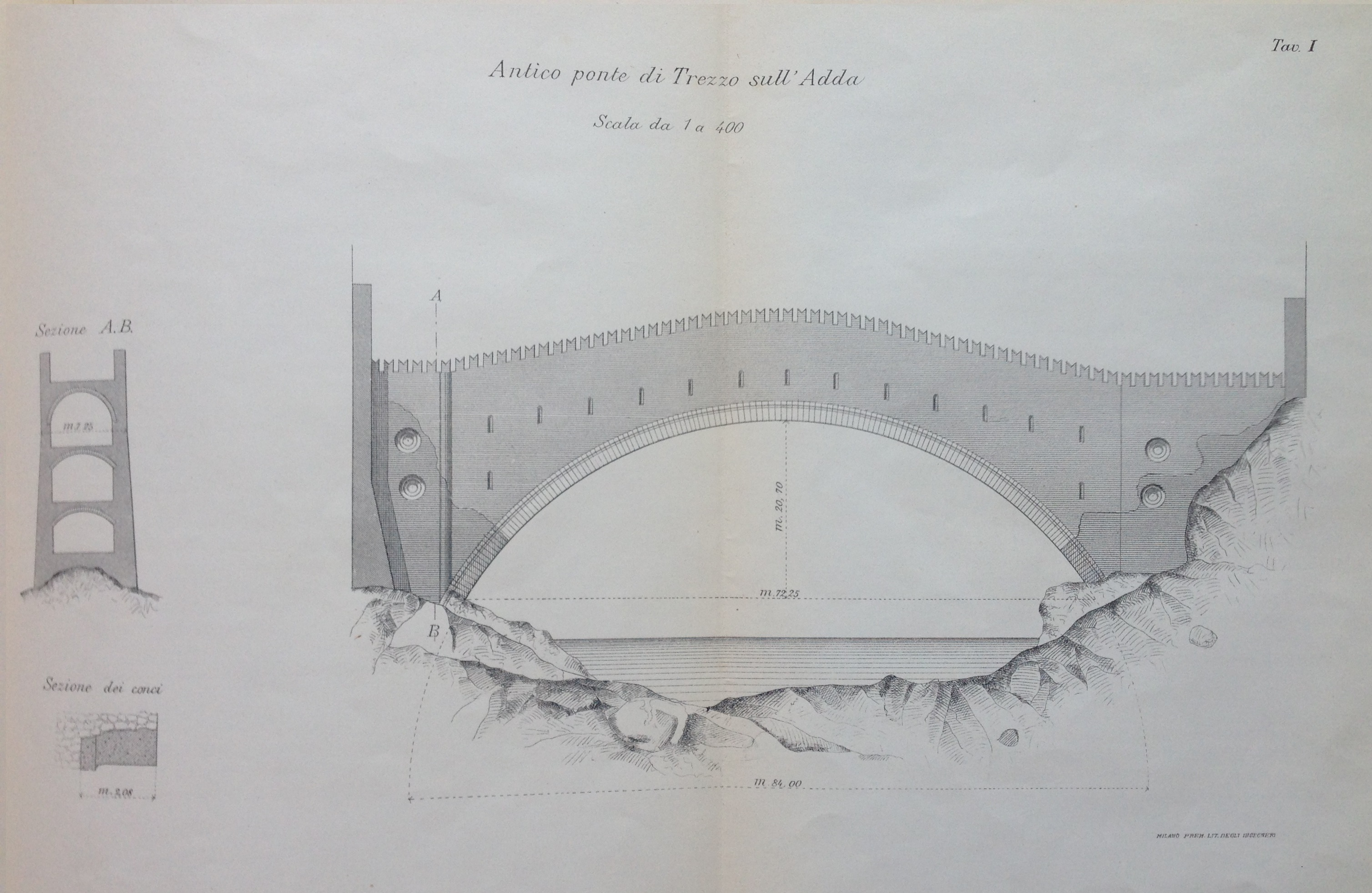 Trezzo sull'Adda Bridge drawing from book Gli avanzi del castello di Trezzo. Milano 1886 by G. Crivelli